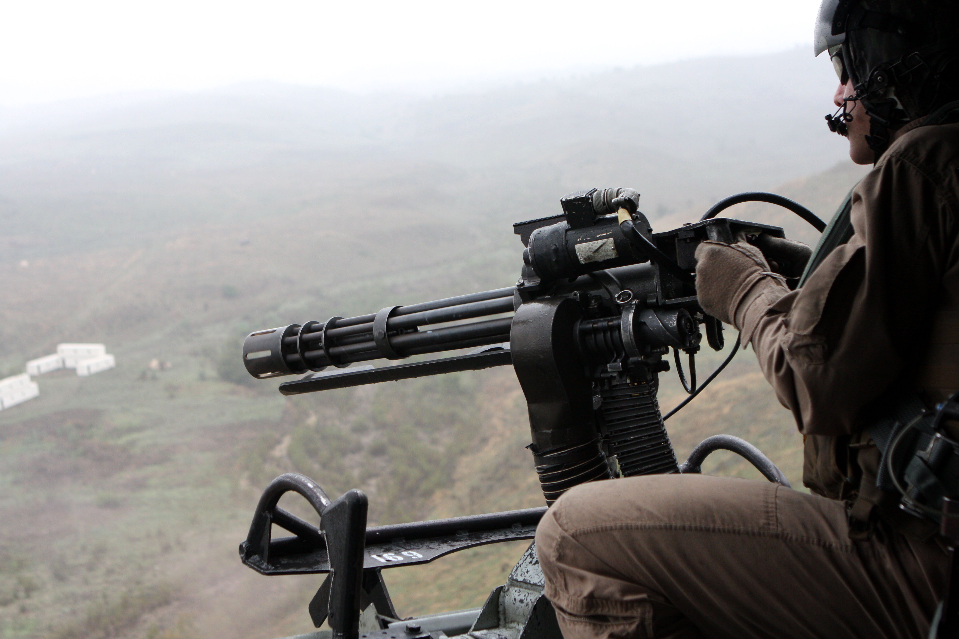 Staff Sgt. Russell J. Hufsey, a crew chief with Marine Light Attack Helicopter Squadron 267, fires a Gau-19 electronically-driven gatling gun from a UH-1Y Huey over Marine Corps Base Camp Pendleton, Calif. Oct. 20. The aircraft participated in a demonstration of squadron's capabilities at their family day Oct. 23.